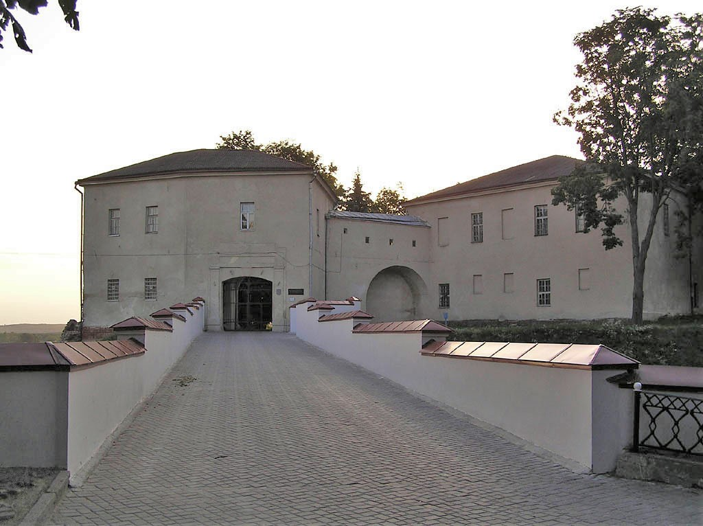 Hrodna Castle, Belarus.